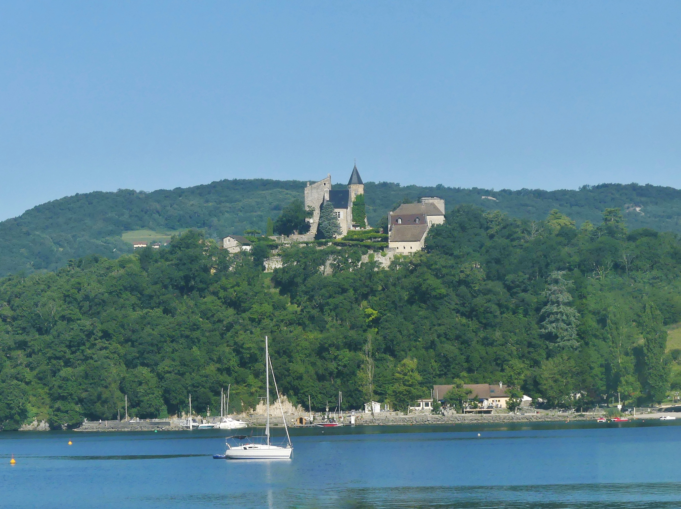 Sight of Châtillon castle at the Northern side of the lac du Bourget lake, in Savoie, France.